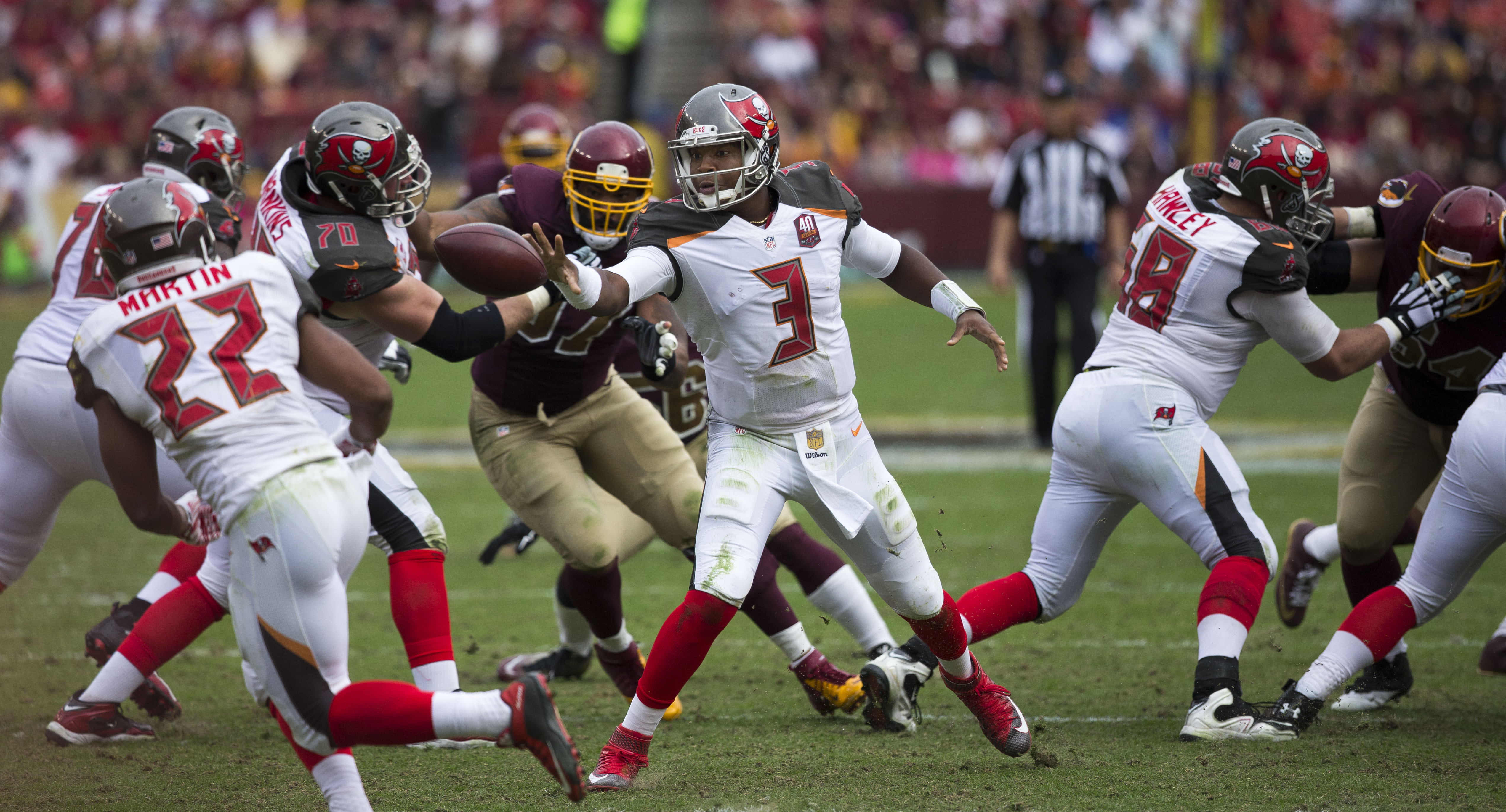 Buccaneers at Redskins 10/25/15